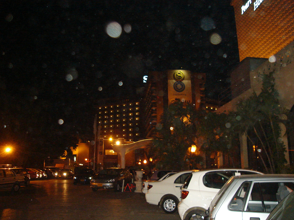 Night view of The Sheraton